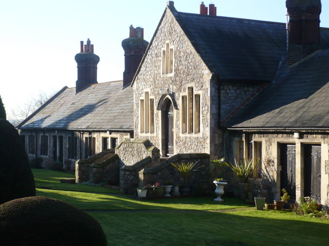 Almshouses at St. Nicholas' Hospital, south of Church Hill St.Nicholas' Hospital in Harbledown, founded in 1084 for the relief of lepers, is now a row of almshouses.